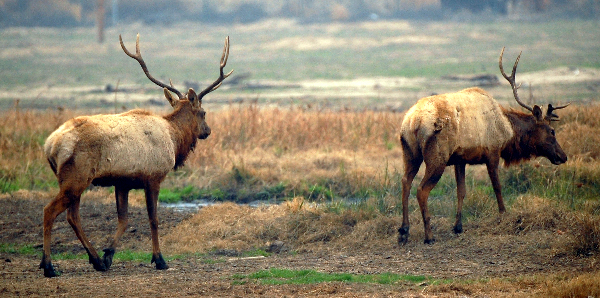 Male ungulates at Tule Elk State Reserve near Tupman, California, USA. Two male Tule Elk walk away from the camera. While this State of California, Resources Agency, Department of Fish and Game, "Elks club" has an address of 8653 Station Rd., Buttonwillow, CA 93206, the location is physically closer to Tupman. Straight-line distance from reserve headquarters to Grace Road and Tupman Road is 2.4 miles. Buttonwillow is about three times further: 7.6 miles. Signs at the reserve say an estimated 500,000 Tule Elk once inhabited California. About this image: Was captured using film or digital camera equipment. May lack artistic merit but documents the existence of the subject(s). May have had elements including colors, composition, gamma, exposure, or size adjusted using camera-, lens-, scanner-settings or by applying image editing software. May have had aberrations, flare, or reflections removed in order that the subject of the image is more clearly visible. Is intended to be representative of the view of the subject that would be perceived by a human eye.